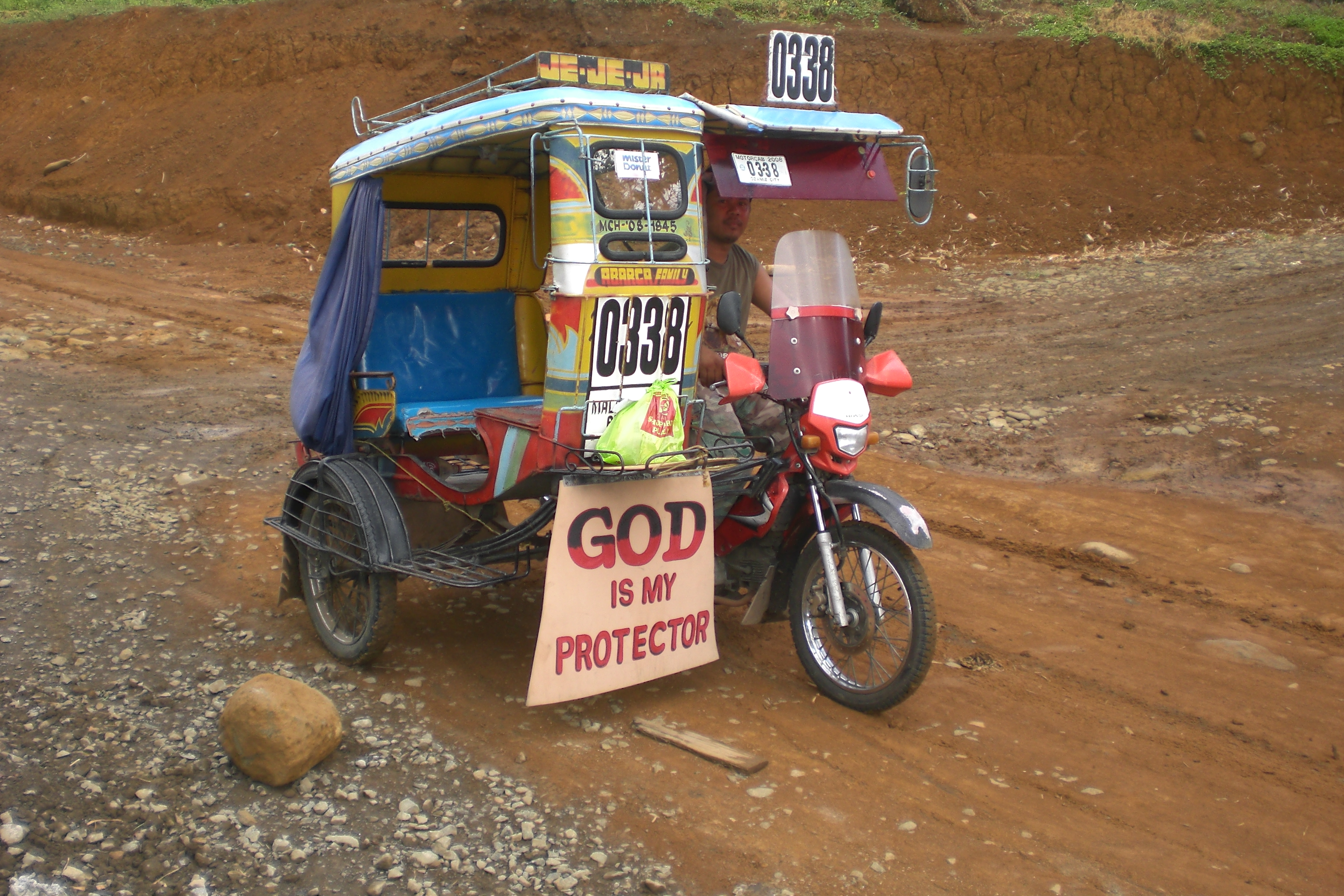 Tricycle in the Philippines